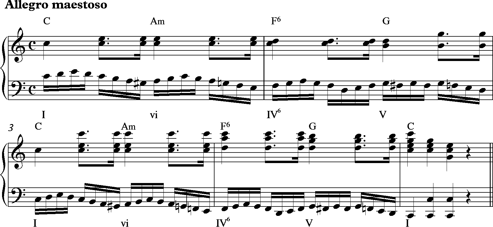 Mozart, from first movement of Piano Sonata in A minor K310